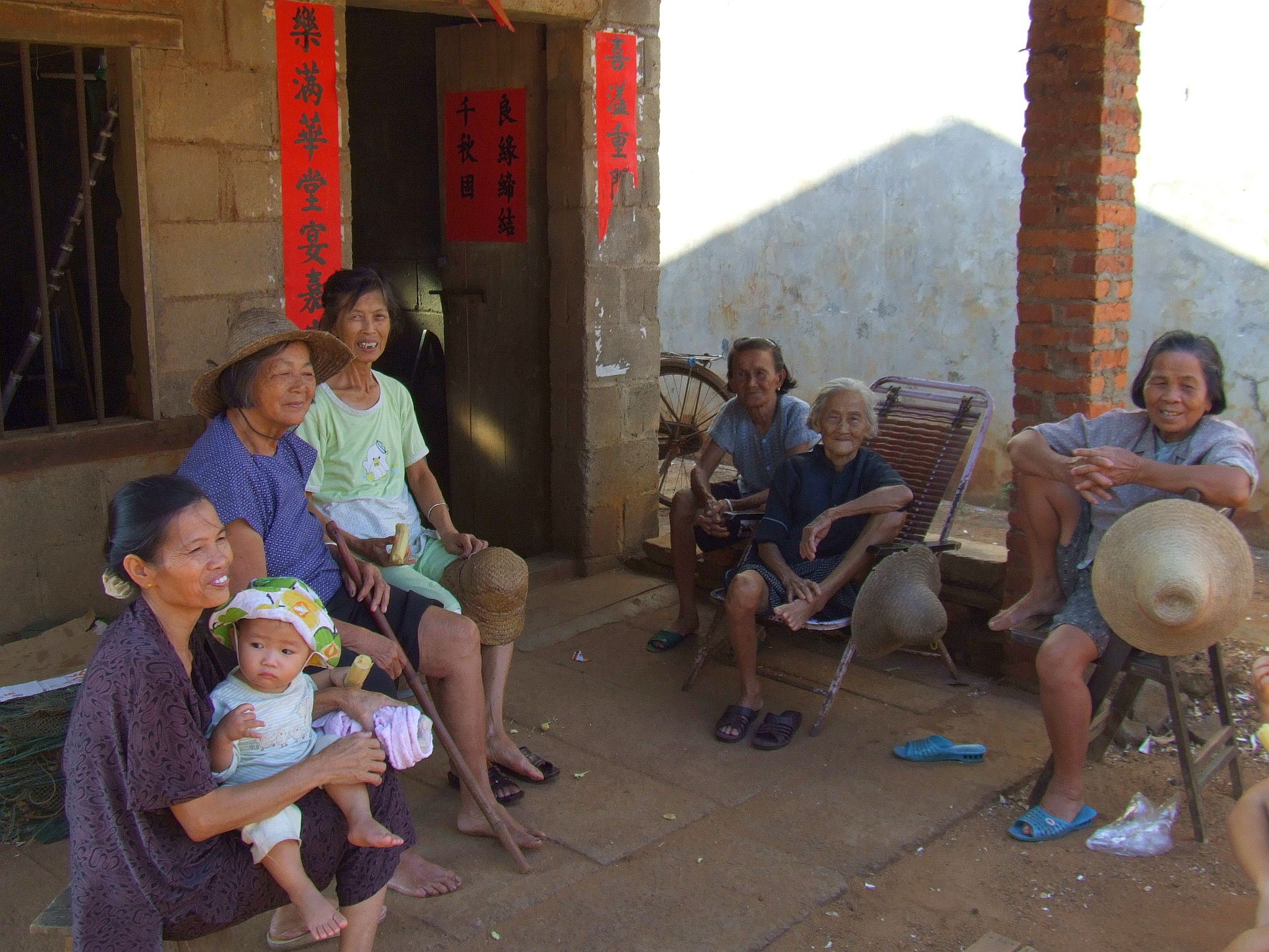 People of Hainan, China.